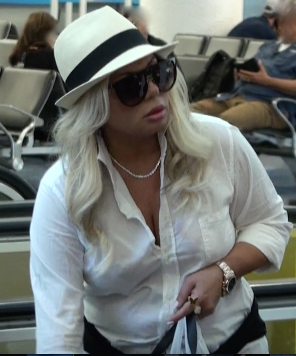 GINA MARIE MARKS AT MIA ON 08-31-2017